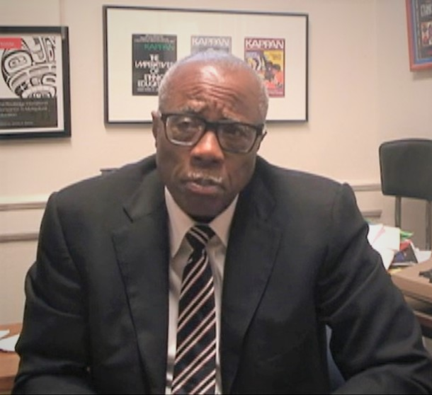 Interview with Dr. James A. Banks, generally regarded as the founder of the multicultural education discipline. Dr. Banks discusses multicultural education, global education, and his thoughts on the current state of education in America. He was one of my professors when I was a student at the University of Washington and is the director of the UW College of Education Center for Multicultural Education.